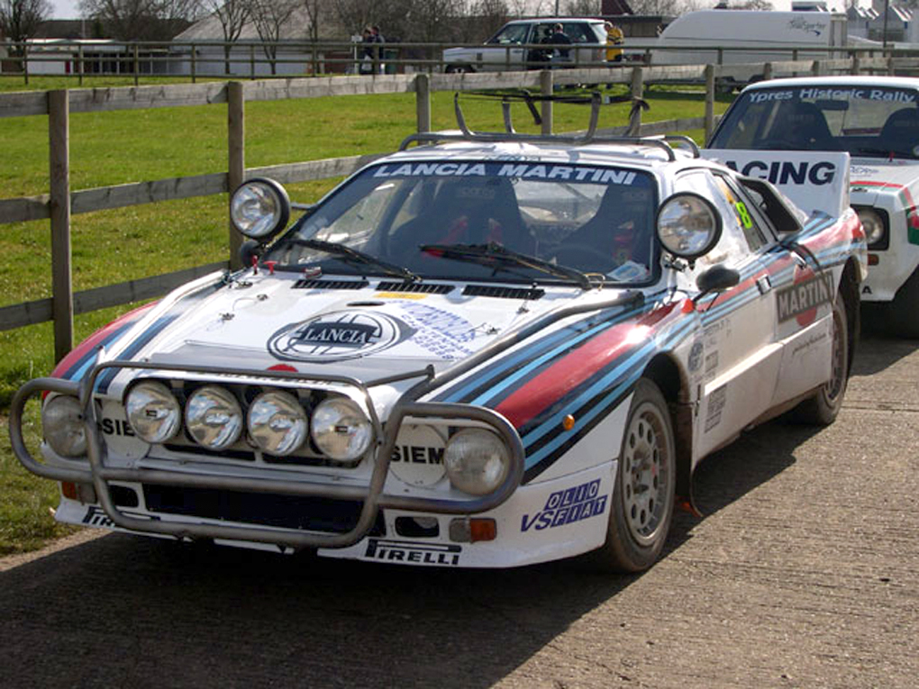 Lancia 037 at the 2005 International Historic Motorsport Show at Stoneleigh Park, Stoneleigh, Warwickshire, England.